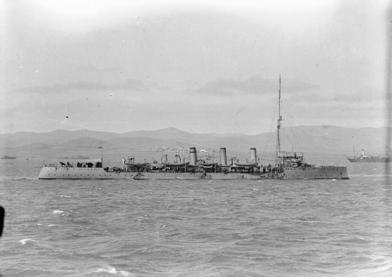 British scout cruiser HMS FORWARD.